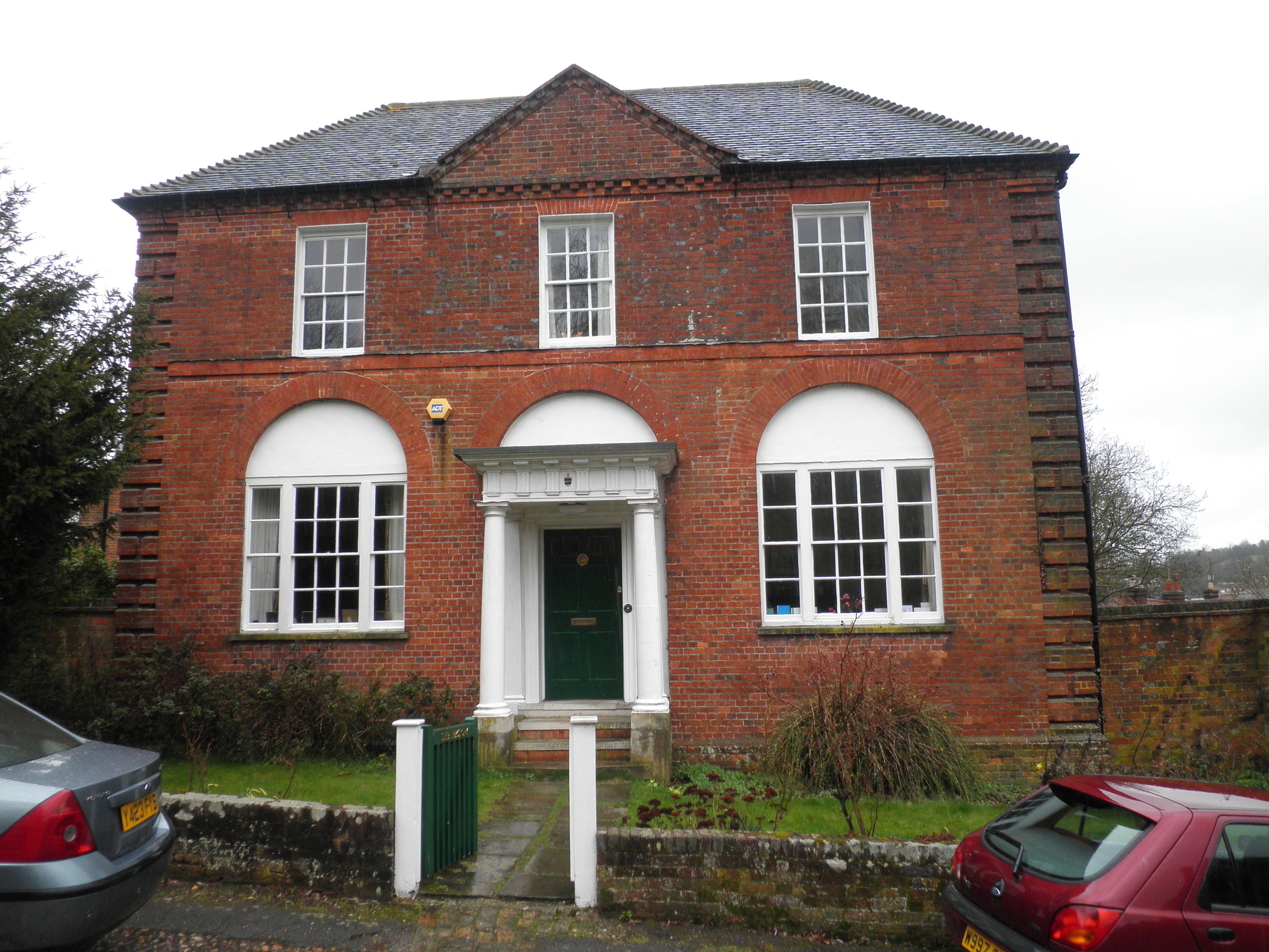 Rectory of St Mary's Church, Chesham, Buckinghamshire